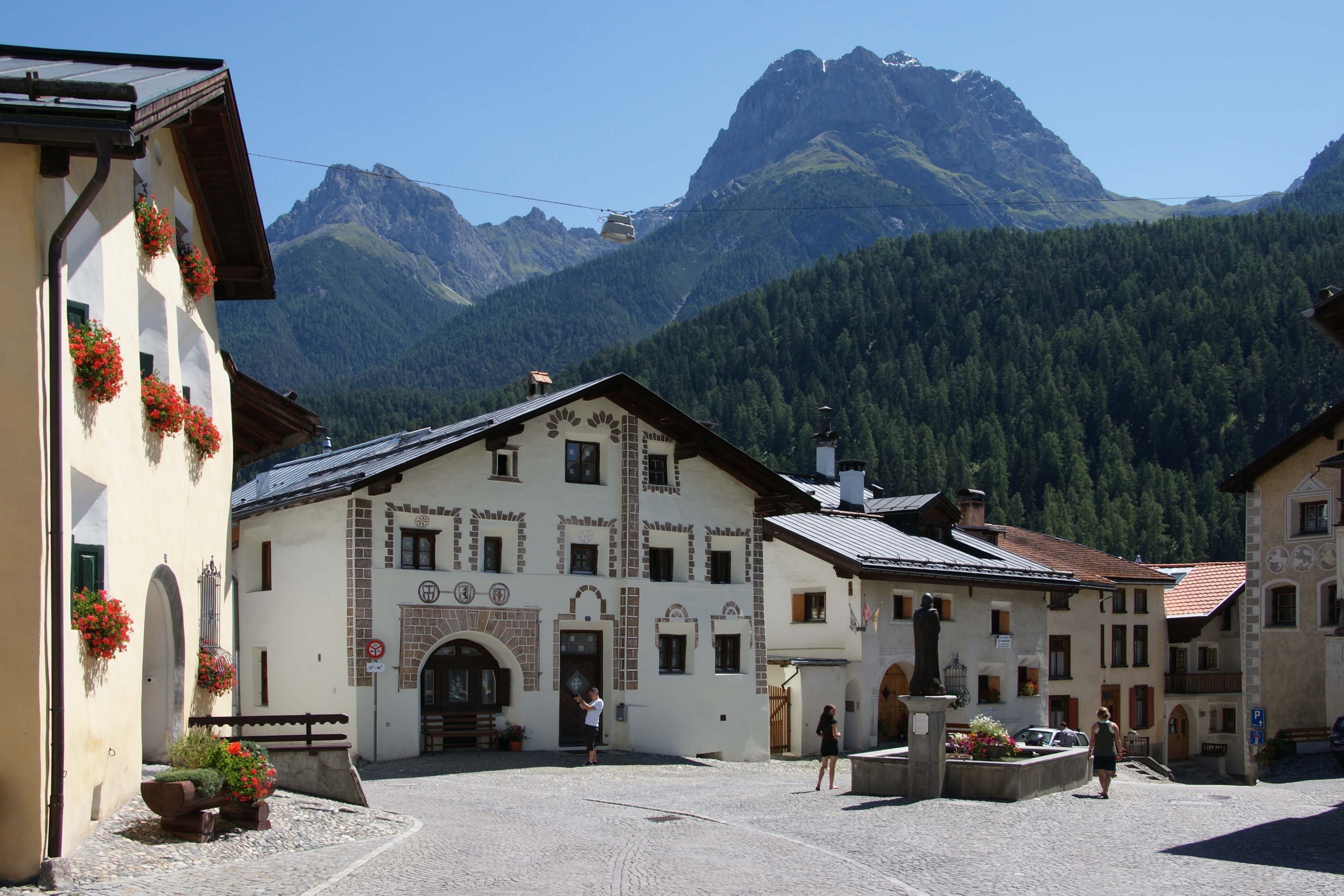 Scuol, Lower Engadine